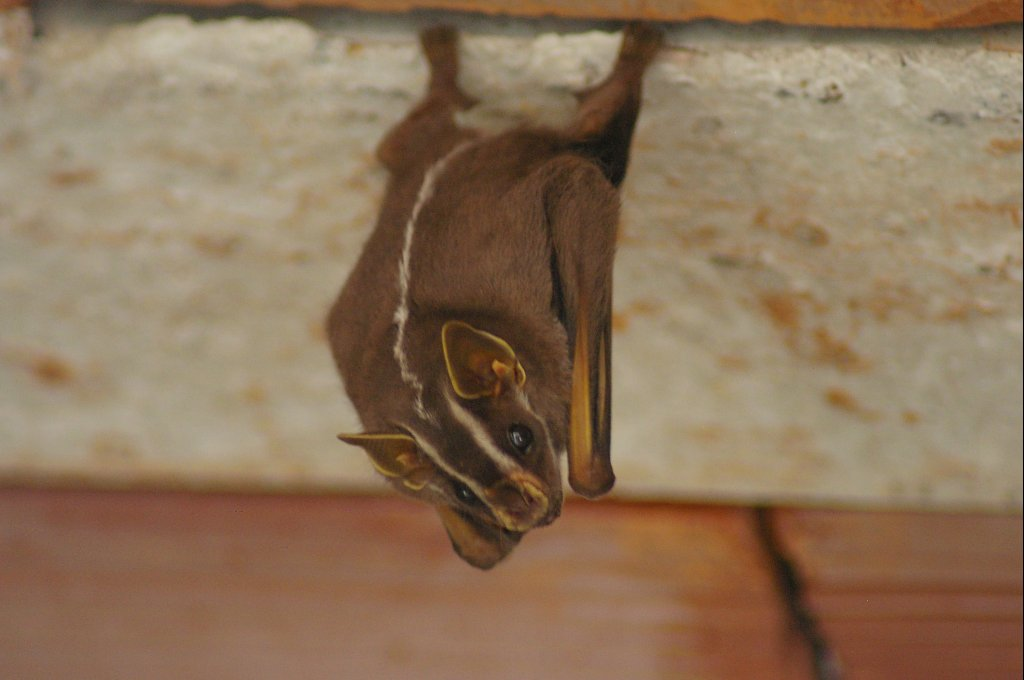 Platyrrhinus sp - either P. lineatus or, less likely, P. recifinus.